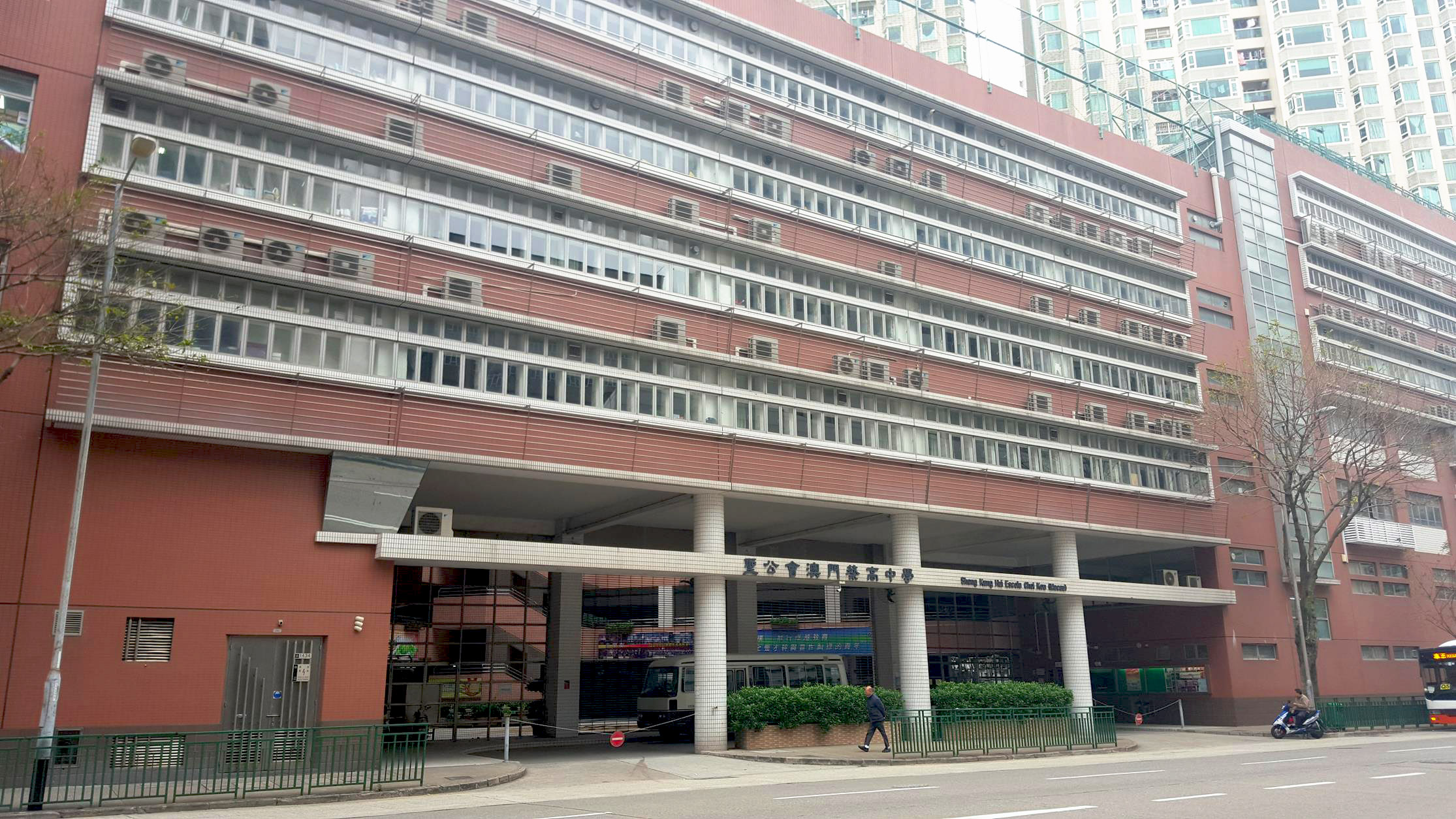 Sheng Kung Hui Choi Kou School (Macau)